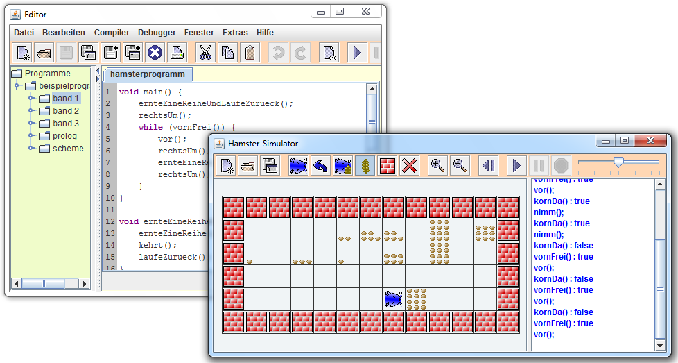 Screenshot of the Java-Hamster-Simulator